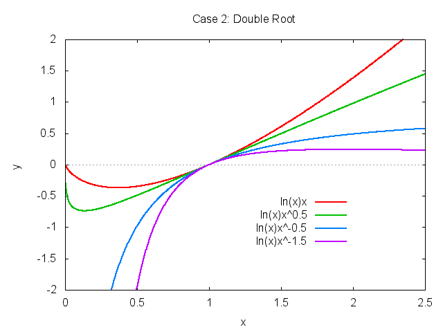 Typical solution curves for a second order Euler-Cauchy equation for the case of a double real root.